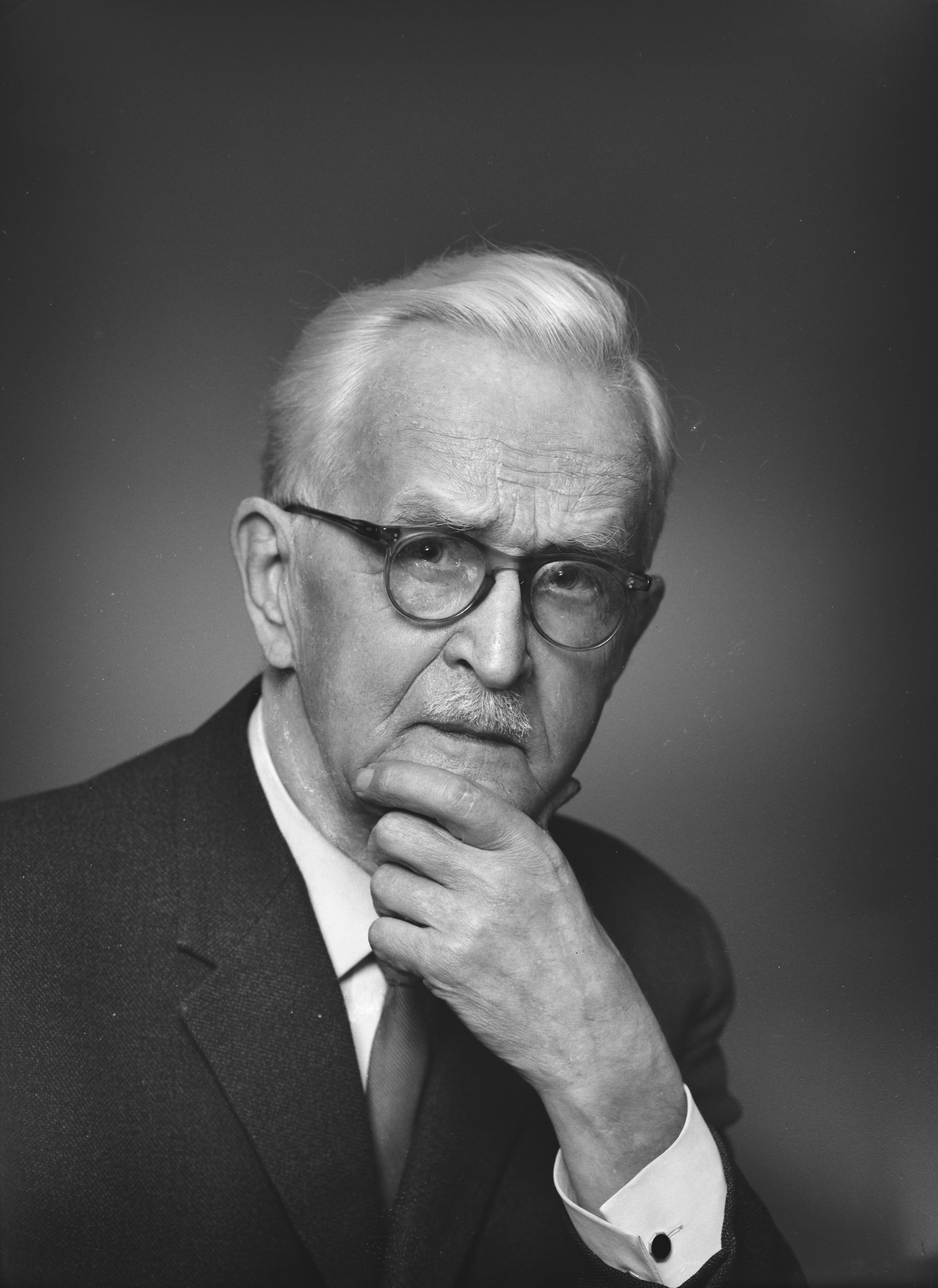 Photograph of the Finnish painter Oskar Elenius (1884–1965).